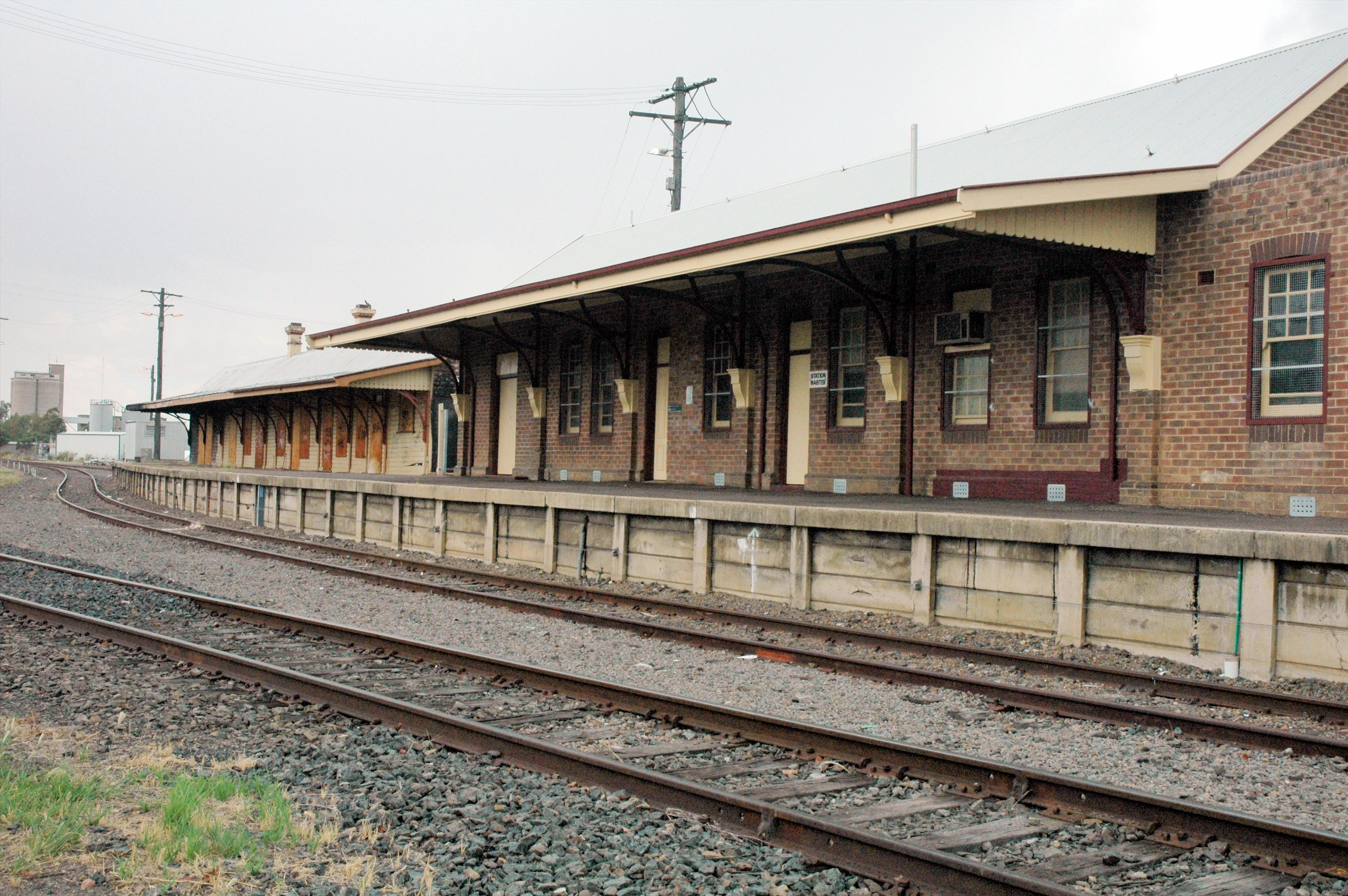 Moree Railway Station, Moree New South Wales Australia